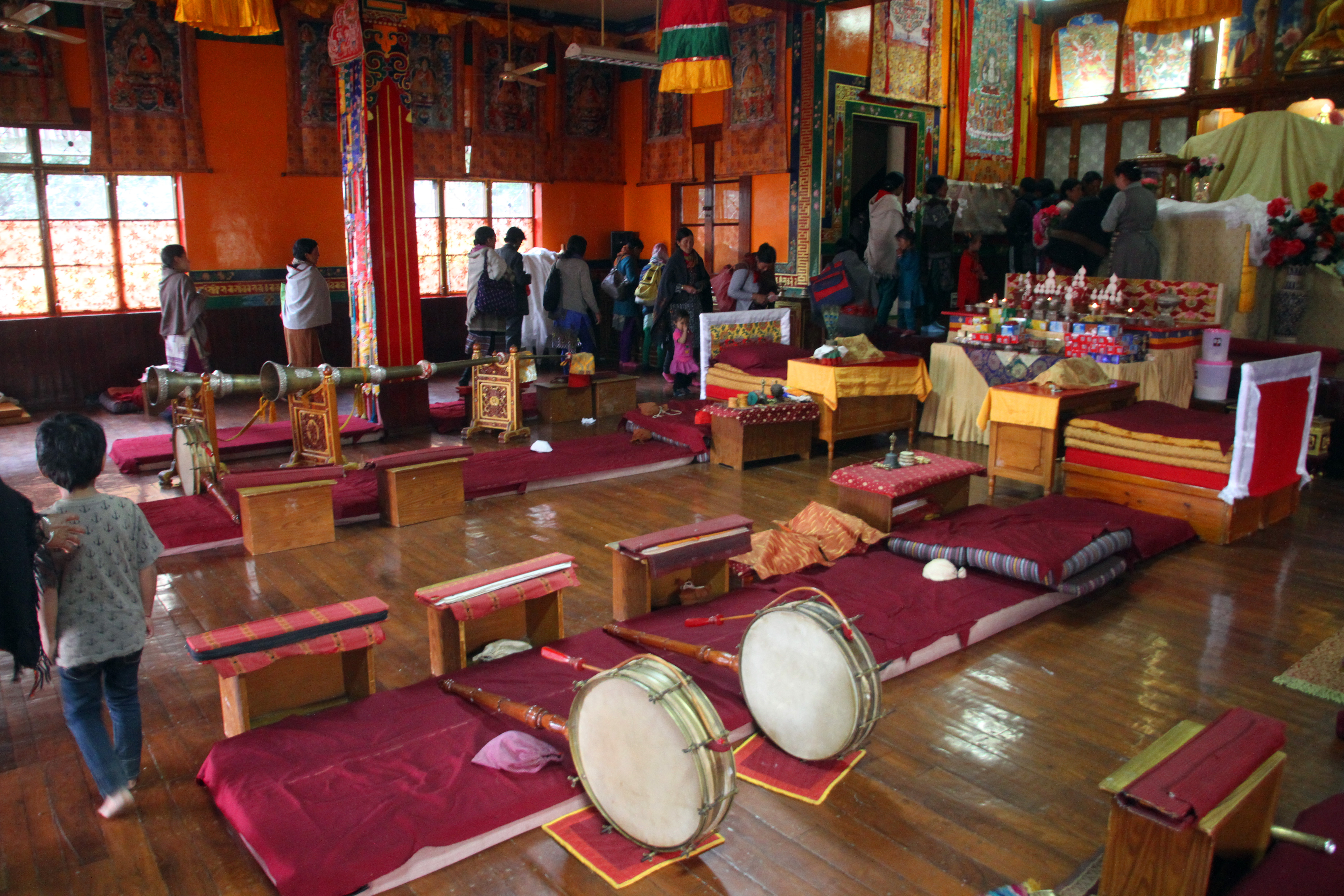 Nechung temple of the state oracle in Dharamsala, Himachal Pradesh, India.